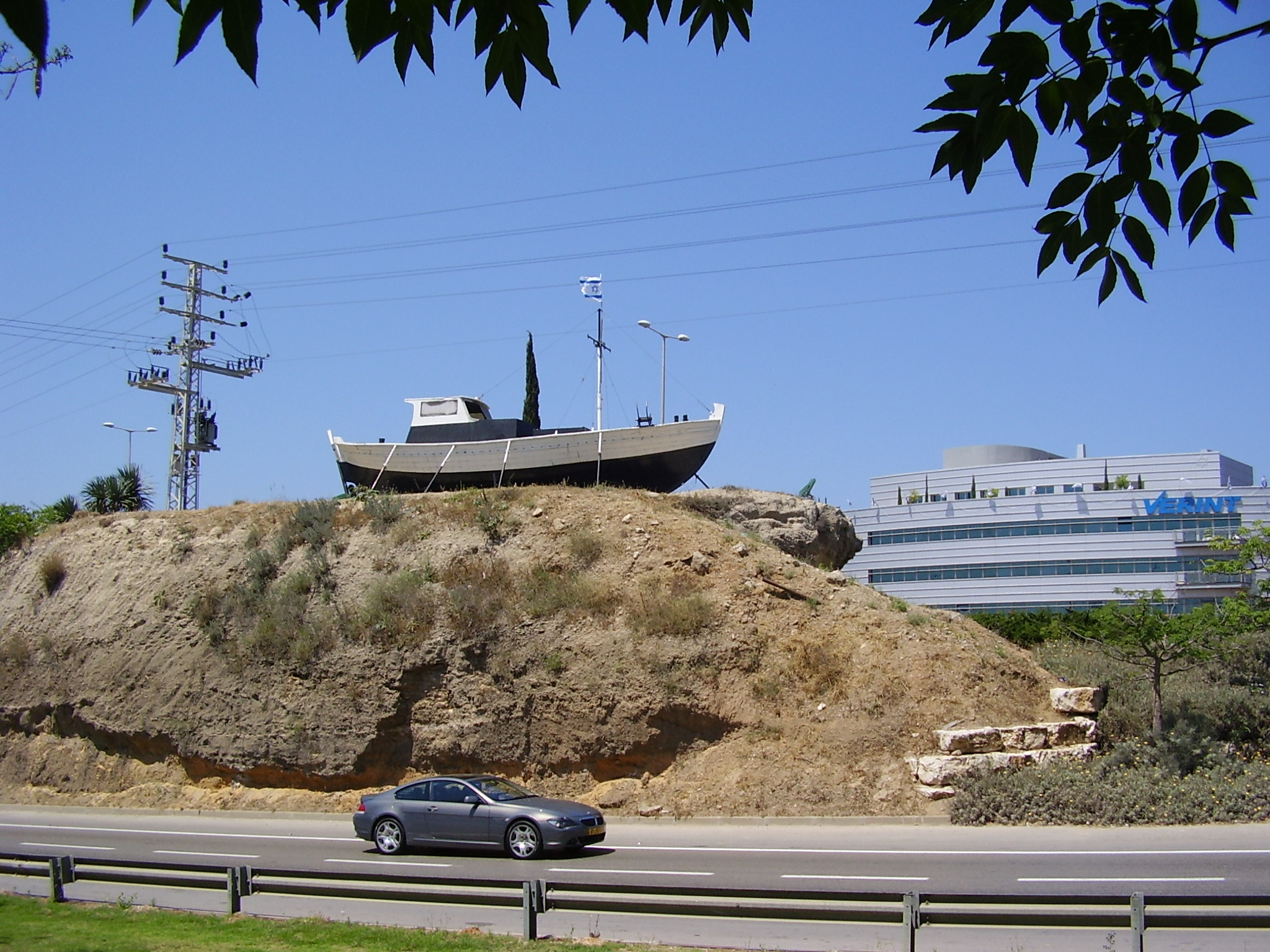 immigrants memorial in herzlia